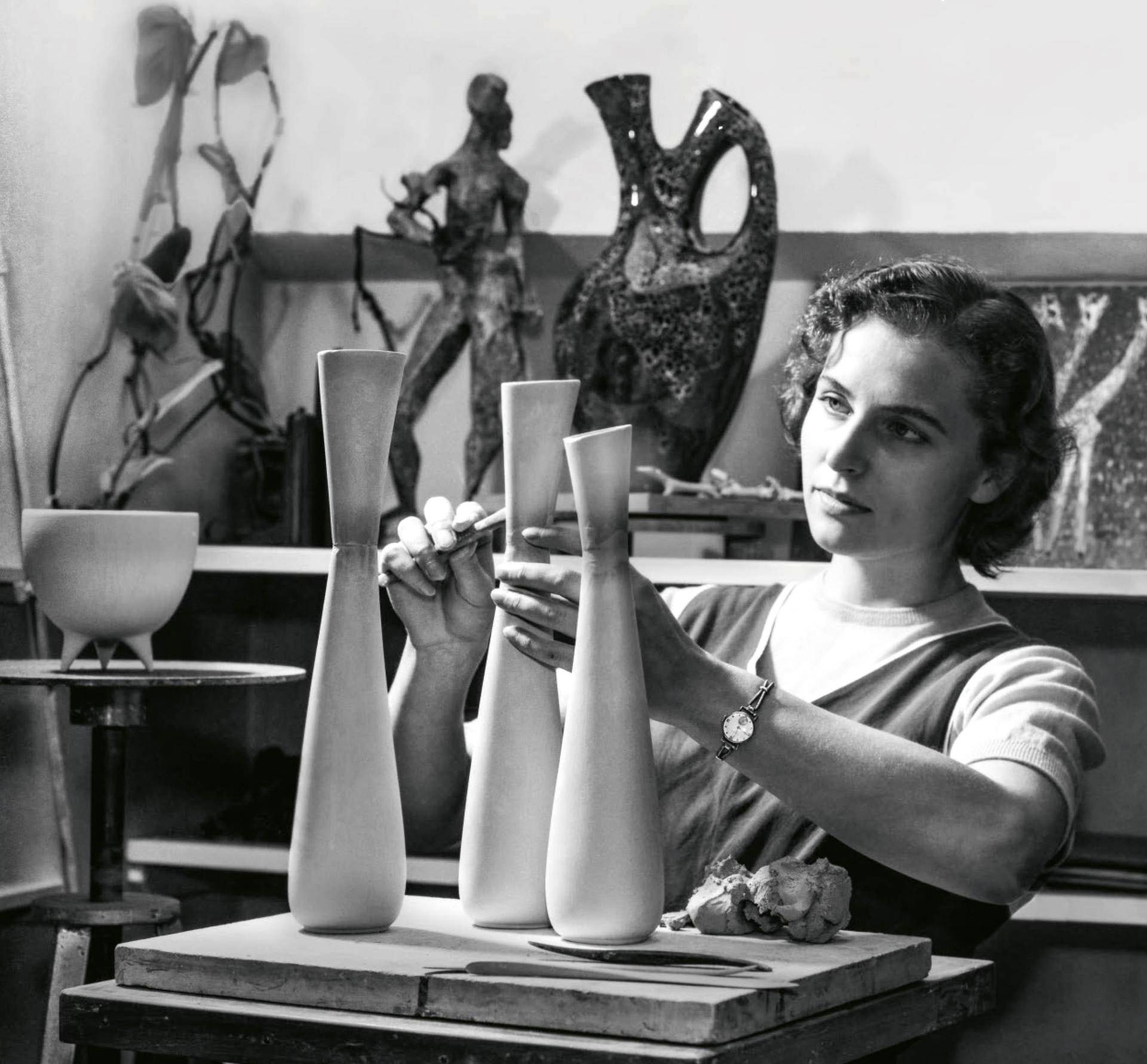 Photograph of the Finnish–Swedish ceramist Lillemor Mannerheim (1927–1994).